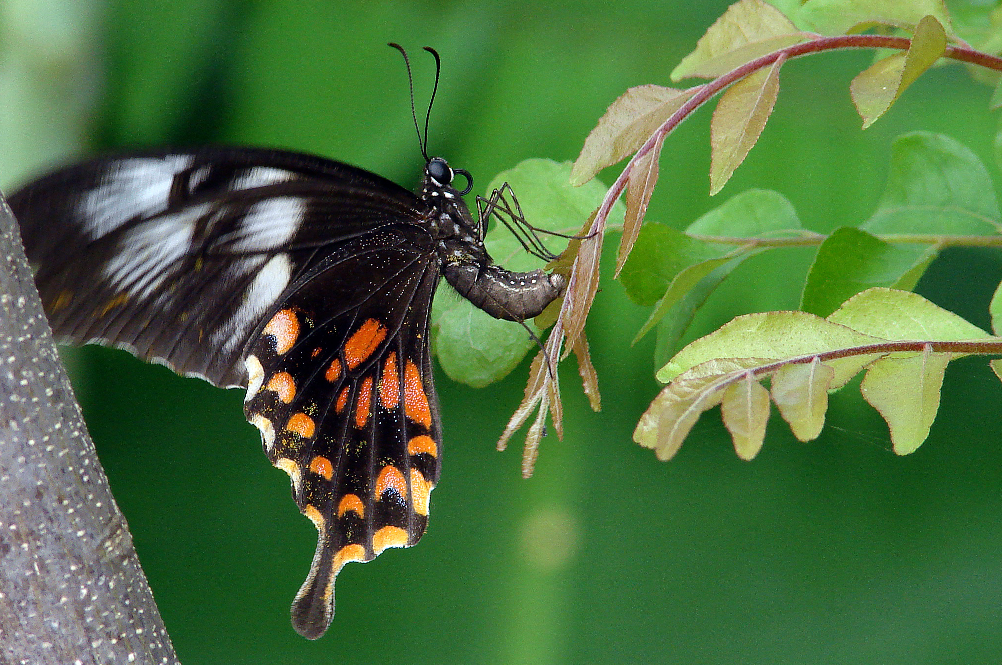 Butterfly of Southern India, Tamil Nadu & Sri Lanka